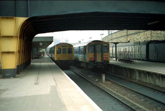 Bradford Interchange Station Old and new generation railcars at Bradford Interchange railway station